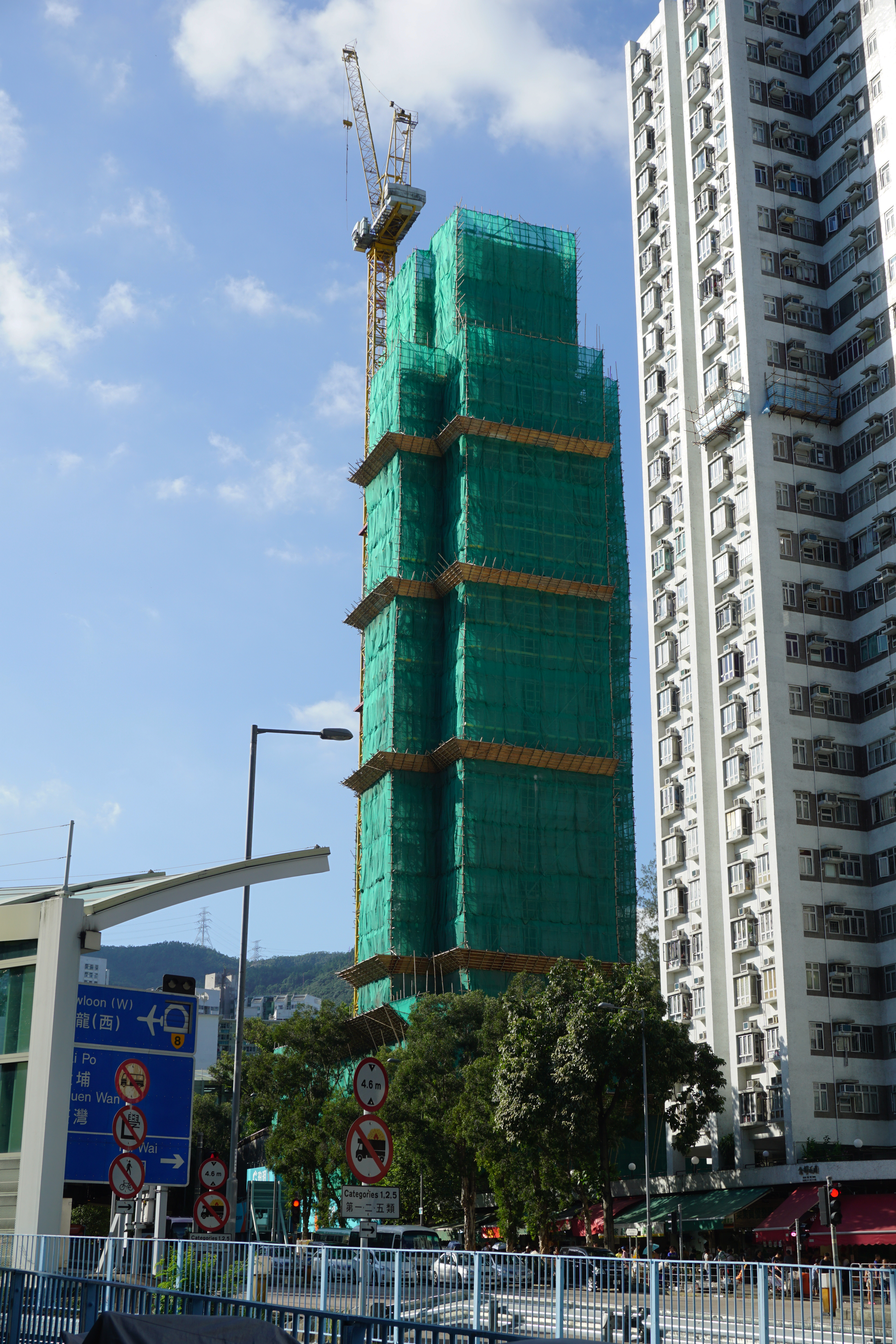 The Garrison in Tai Wai, Hong Kong.